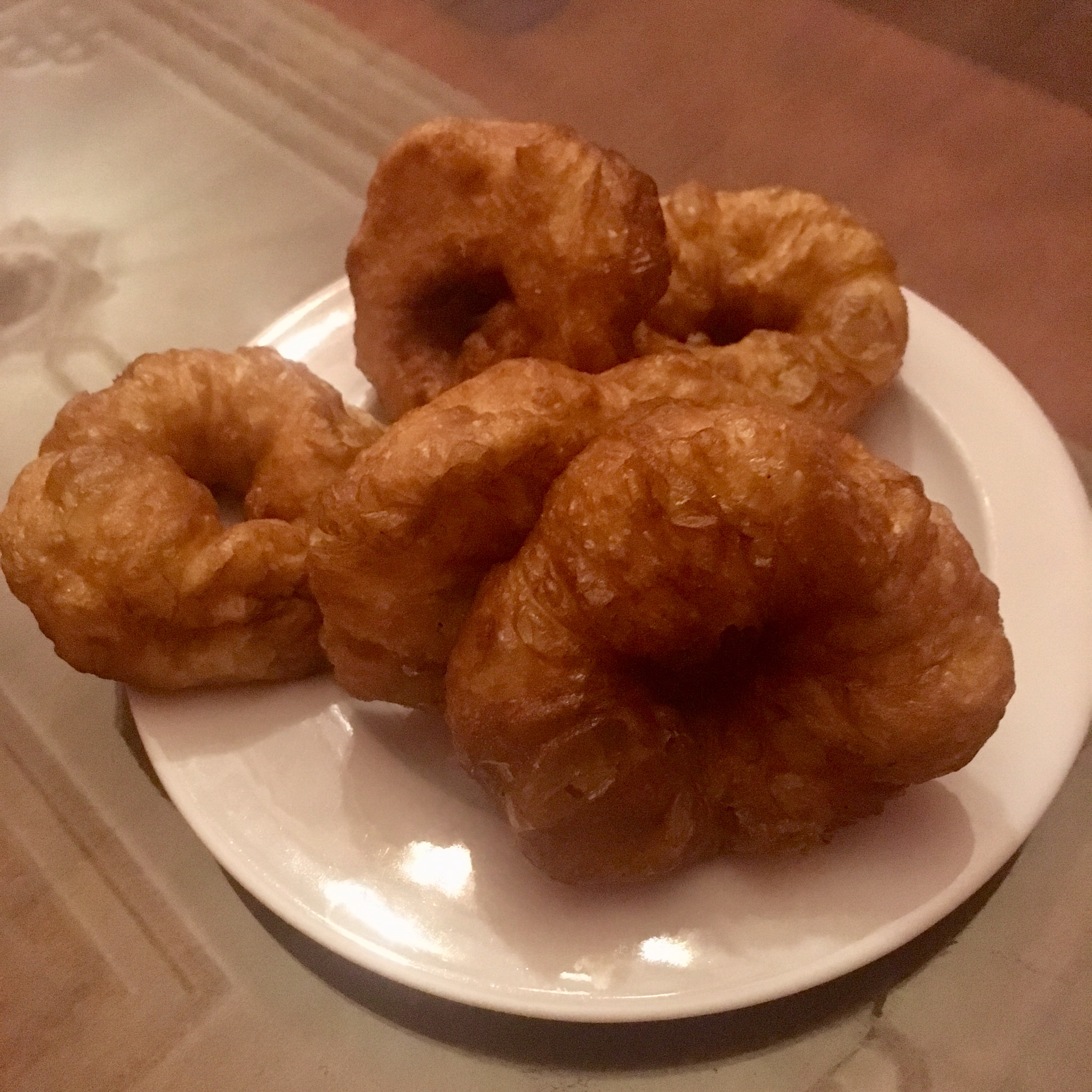 Sfenj in Marrakesh Morocco, a typical form and shape of Moroccan style sfenj